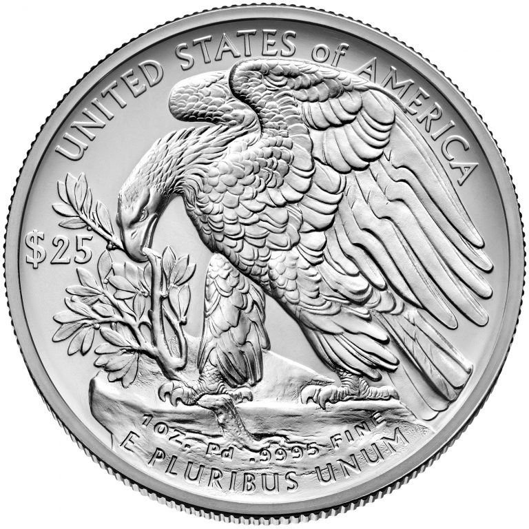 Reverse of a $25 Palladium Eagle bullion coin issued in 2017.